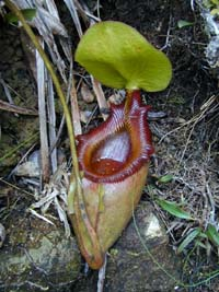 N. × kinabaluensis Shot using an Olympus 2000Z digital camera in 2000, on the slopes of Mount Kinabalu. Photographer: User:Willsmith